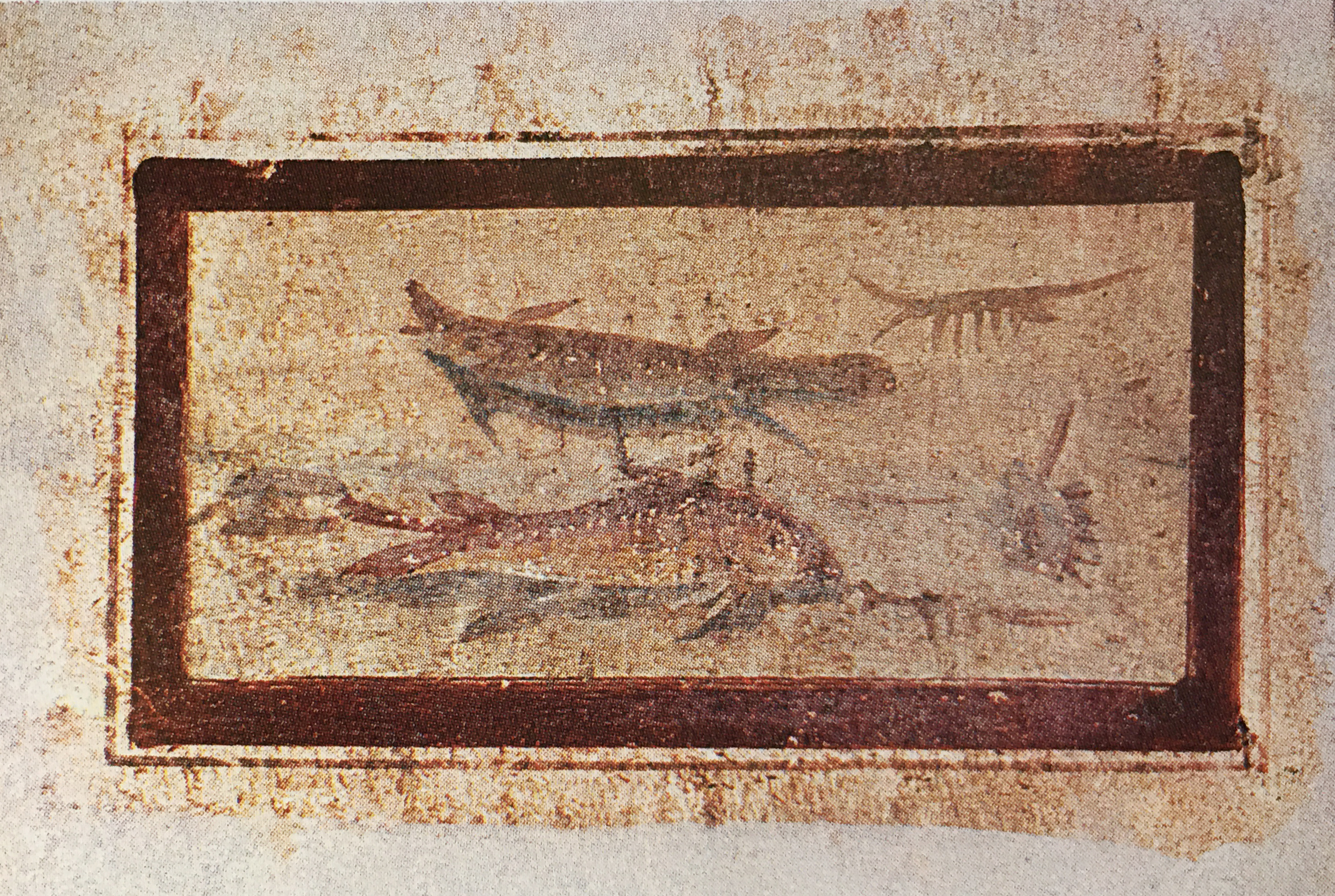 House of the Prince of Naples in Pompeii Plate 134 Tablinum Pinax on West Wall